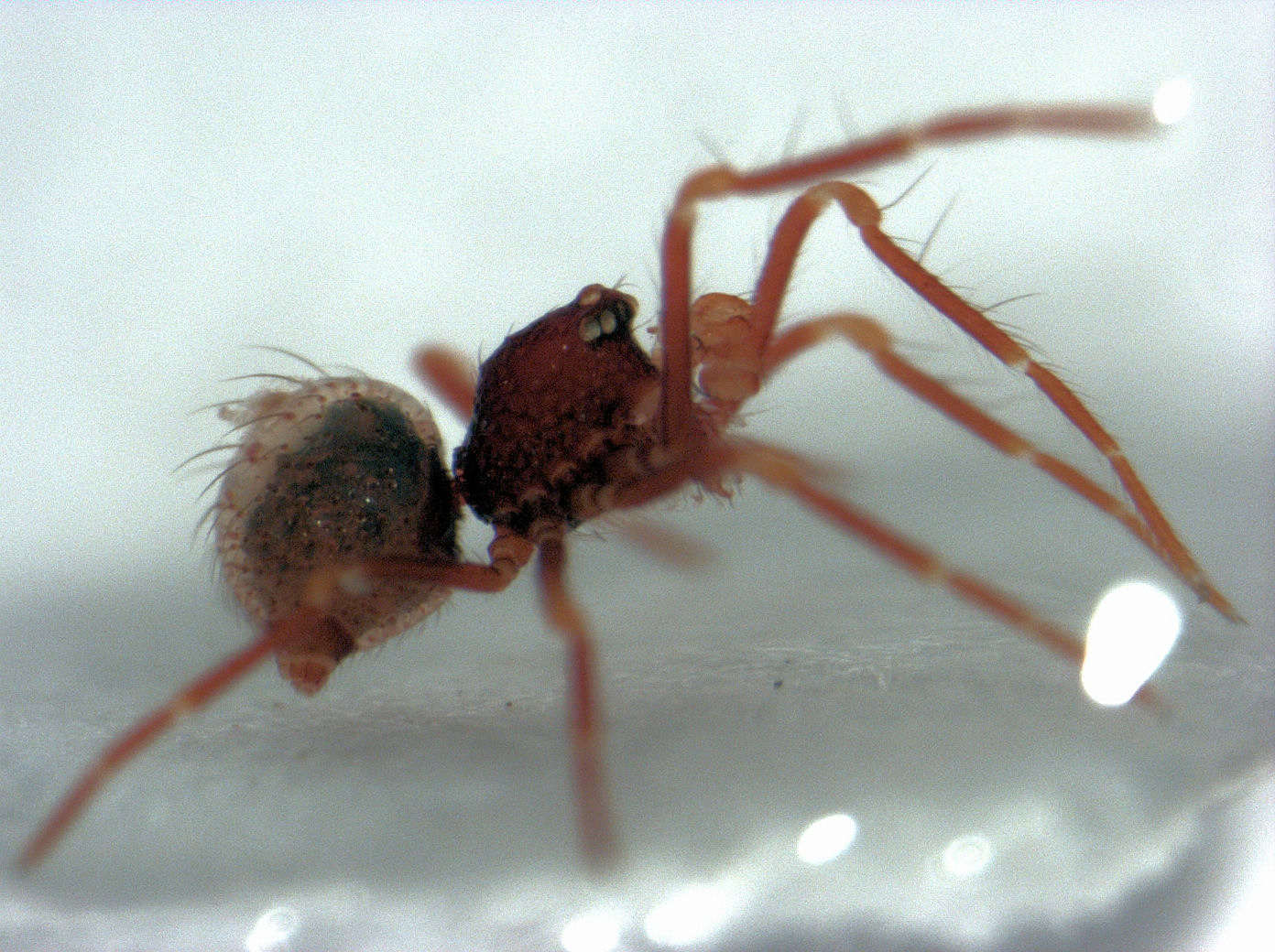 adult male Taphiassa punctata, syn. Parapua punctata (Rix, Harvey 2010)